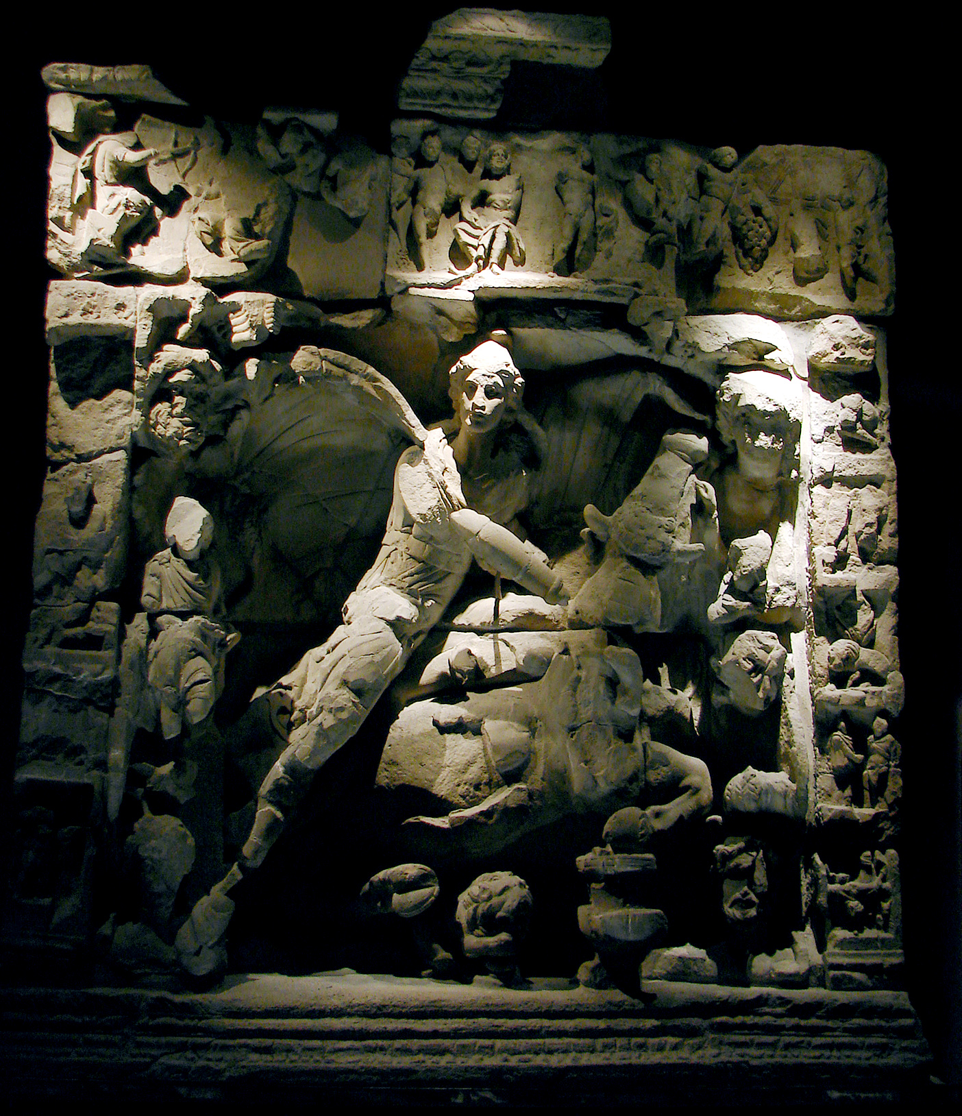 CIMRM 966(v.I, p. 323-325): Bas-relief of the tauroctony of the Mithraic mysteries. Found in 1895 at the Sarrebourg mithraeum (Pons Saravi, Gallia Belgica). Now on display at La Cour d'Or museum in Metz.